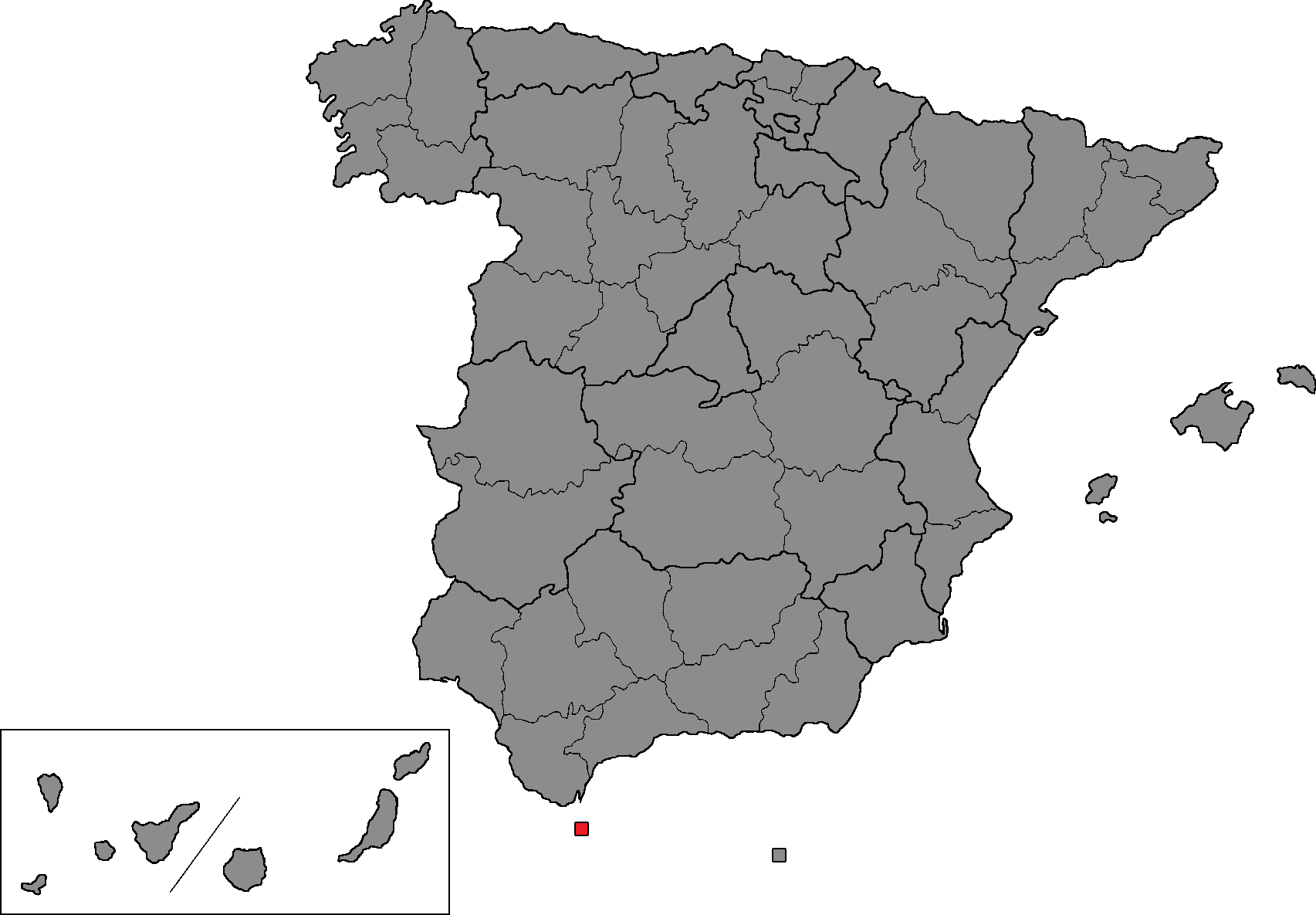 Spanish Congress of Deputies district of Ceuta.